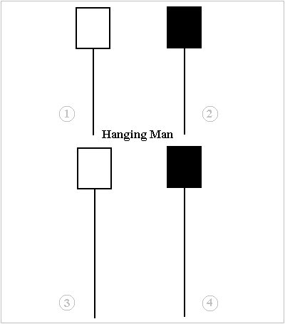 Hanging Man (Candlestick Pattern)